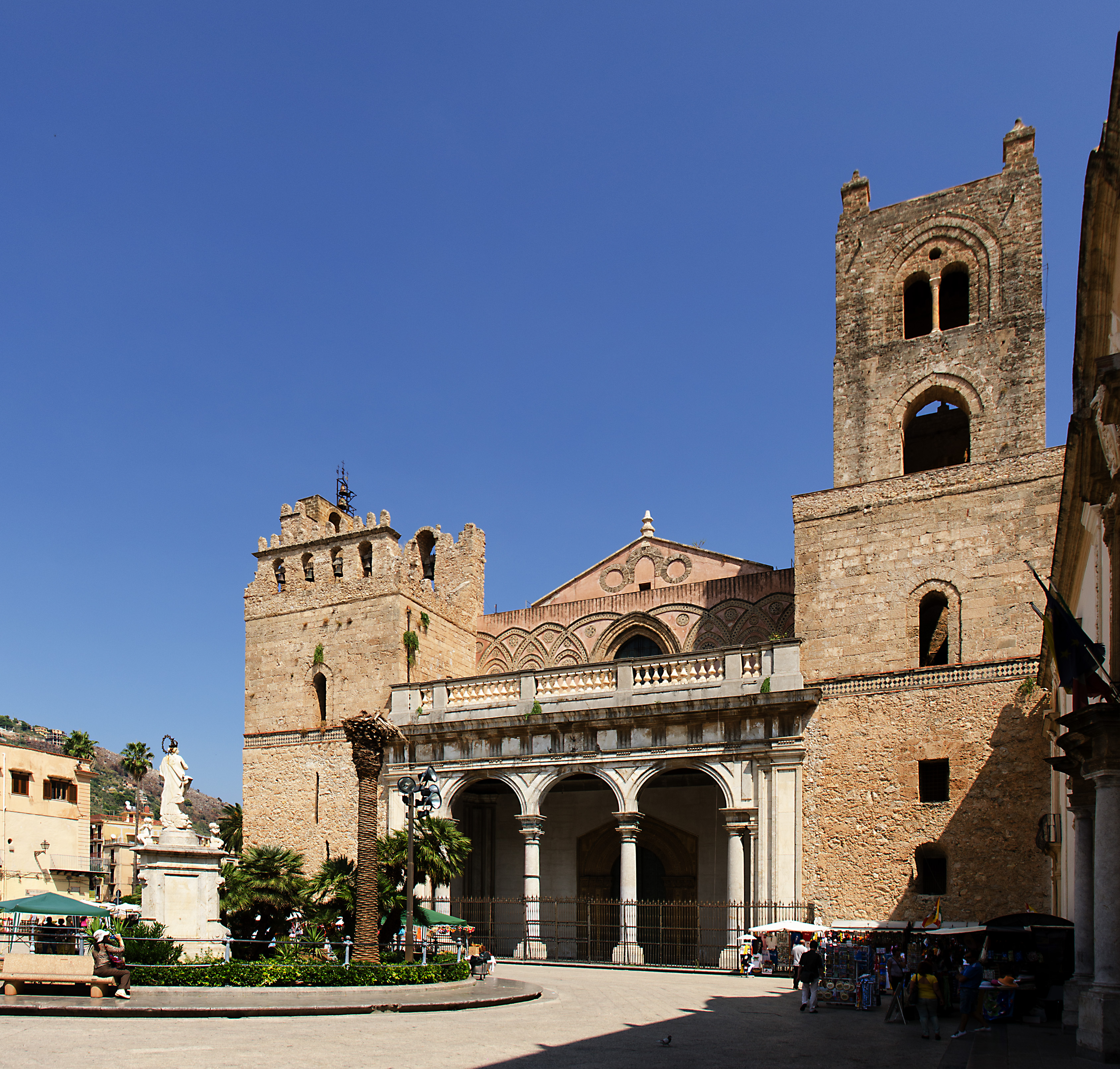 Monreale, Sicily. Cathedral.